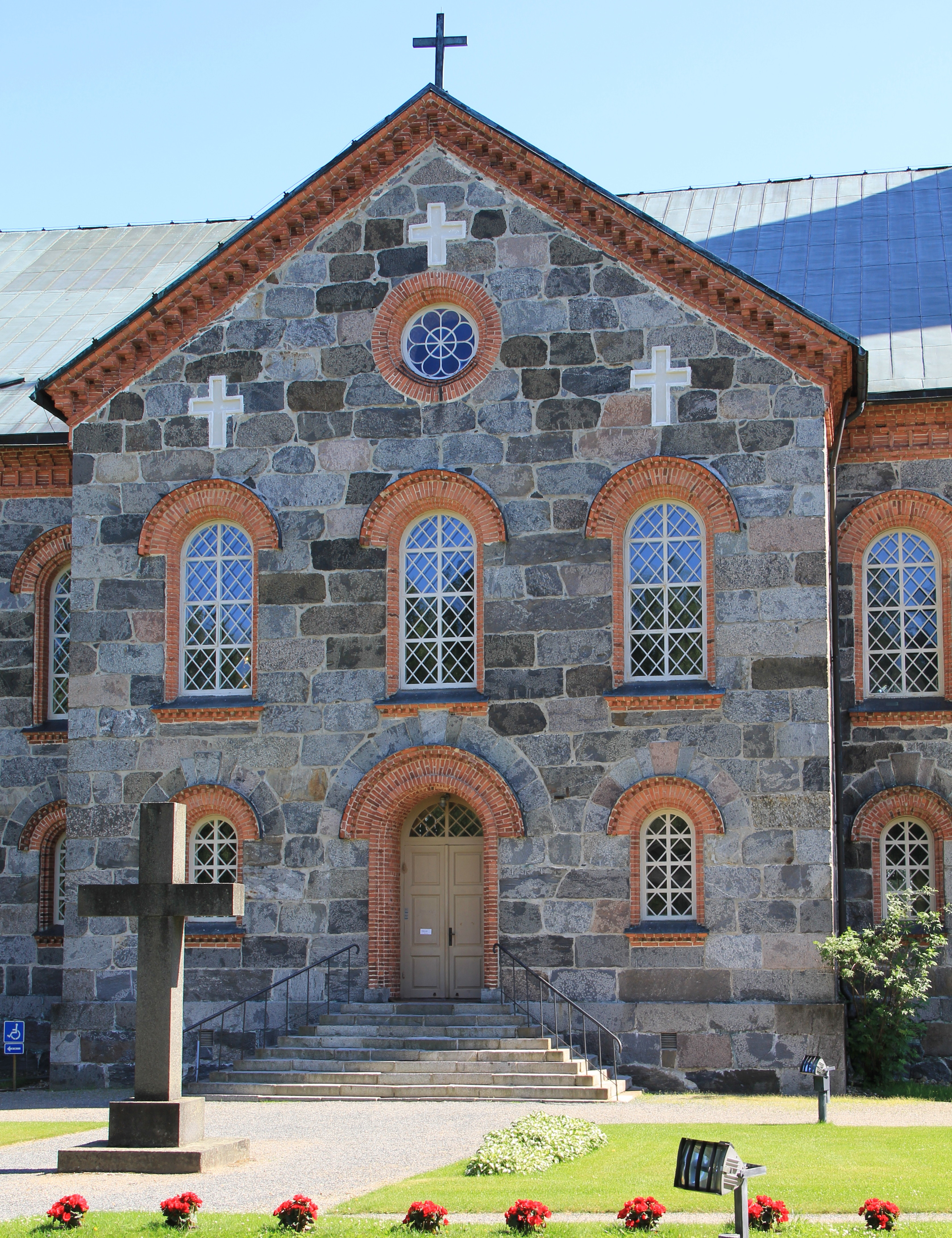 Juva church, Juva, Finland. - Stone church, designed by architects Ernst Lohrmann and Carl Albert Edelfelt. Completed in 1863. - Seen from northwest.